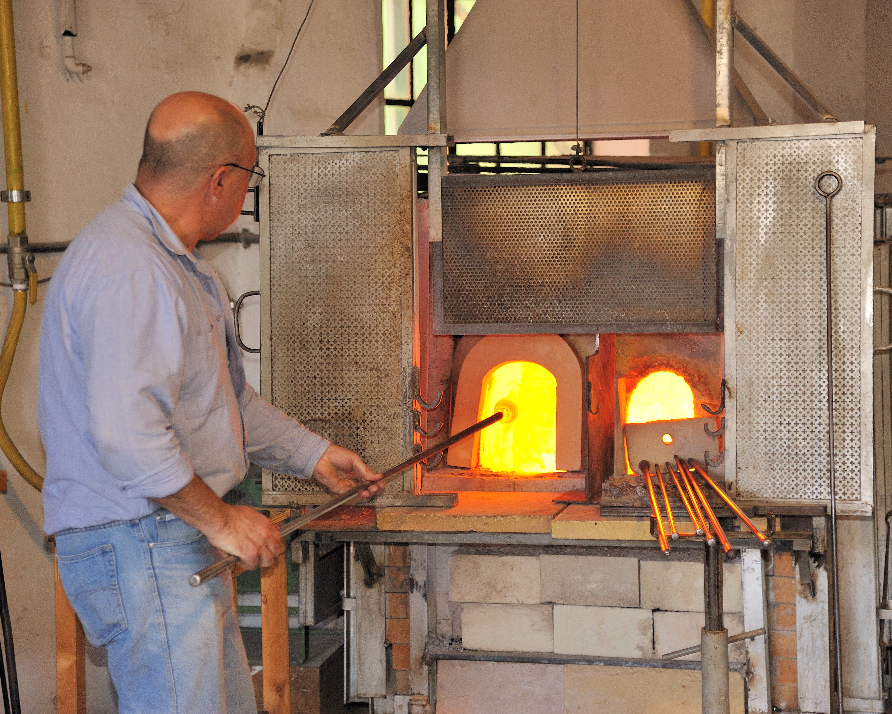 A worker at a Muroano glass factory demonstrates how the galss is made molten so it can be worked.